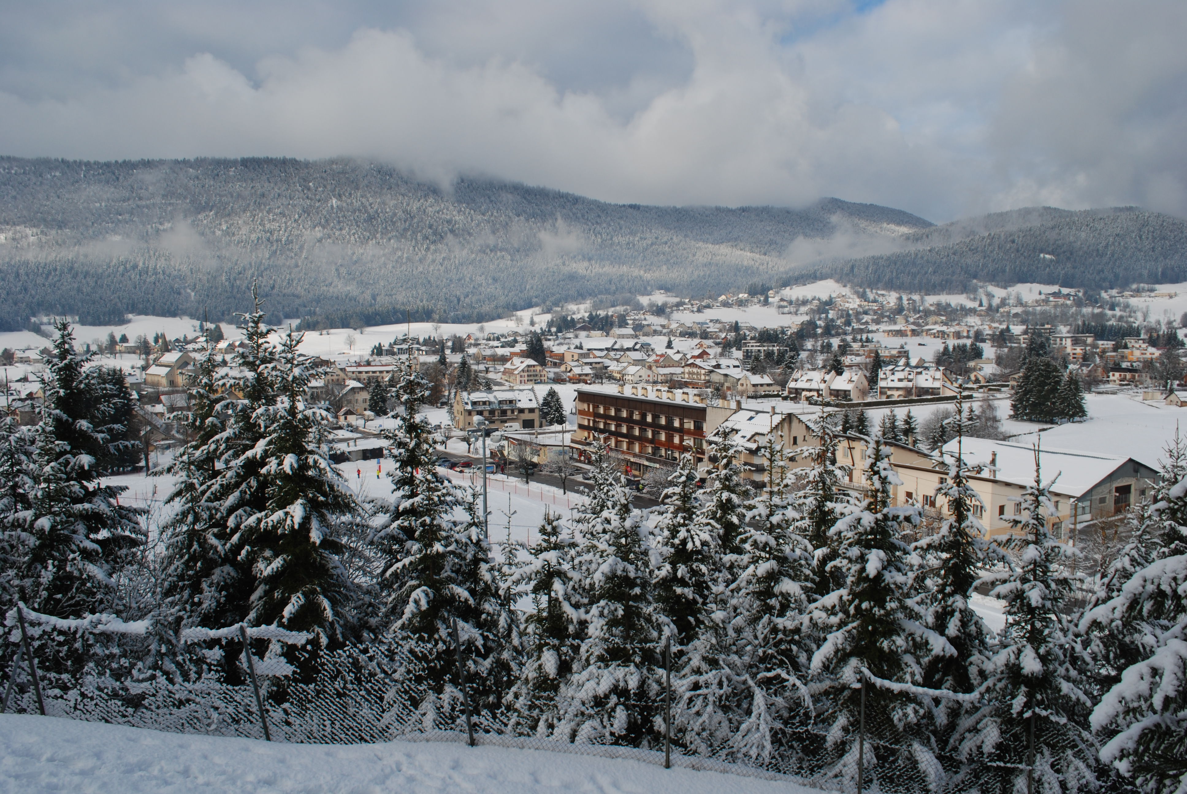 View of Autrans from the ski jumps